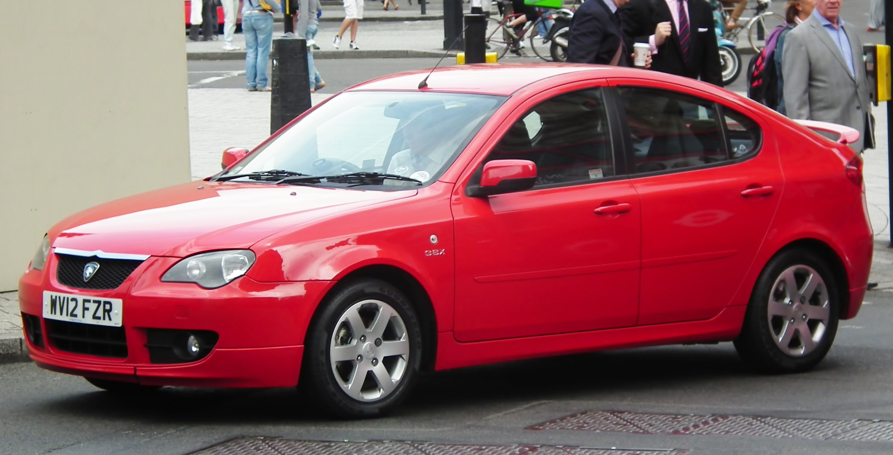 2012 Proton Gen-2 ecoLogic GSX in Trafalgar Square, London, England, U.K. Colour : Chilli Red Designed & Manufactured in Malaysia